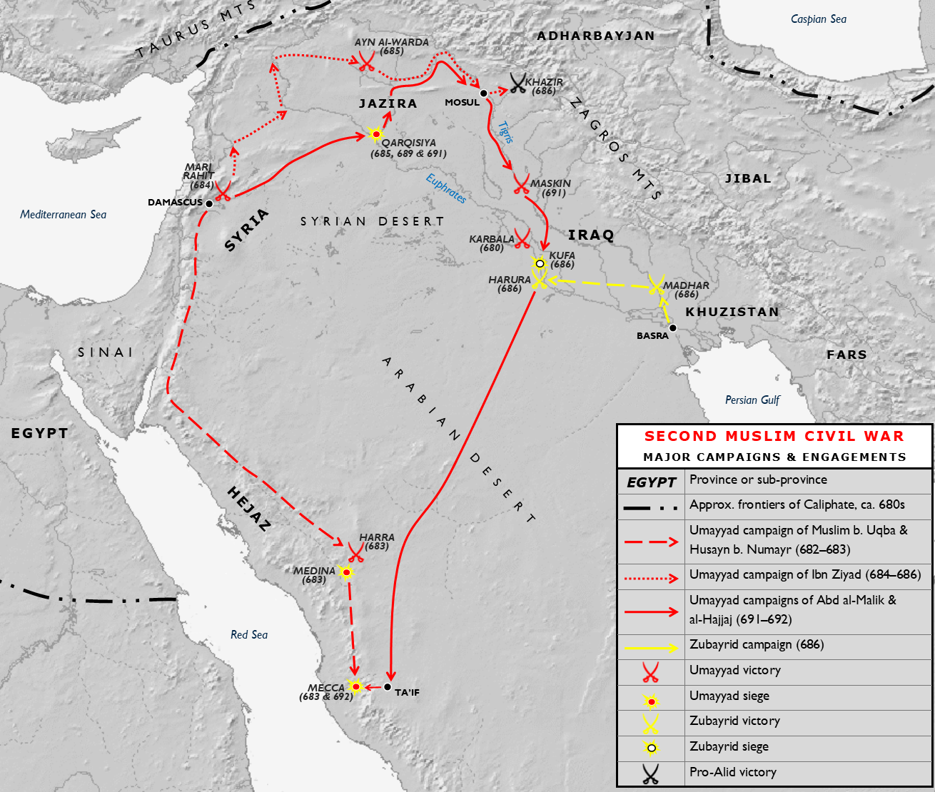 A map of the major campaigns and engagements of the Second Muslim Civil War (680-692) Sources: Base map from Demis World Map Server, which is free Information from The History of al-Tabari vols 19, 20 and 21 Second Encyclopedia of Islam entries on Abd al-Malik b. Marwan, al-Mukhtar al-Thaqafi, Ubayd Allah b. Ziyad, al-Harra, Abd Allah b. al-Zubayr